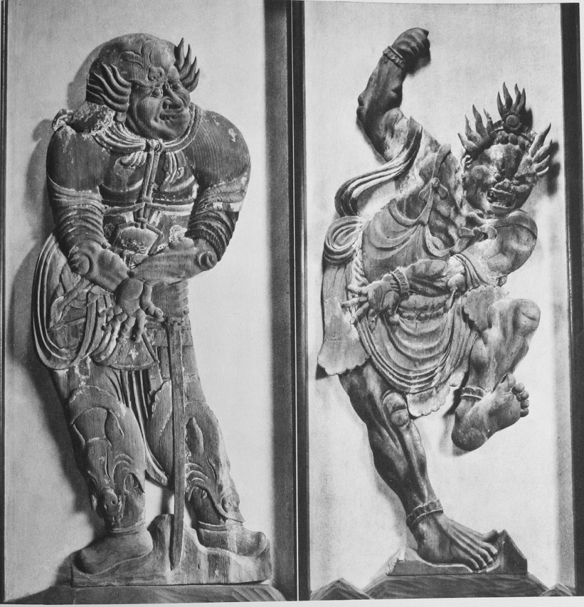 Two of Twelve Heavenly Generals Heian period, 11th century Wooden tablets, relief carving, coloring, cut-gold foil (kirikane ) on wood twelve heavenly generals, Kofukuji National Treasure House, , Kōfuku-ji, Nara, Japan